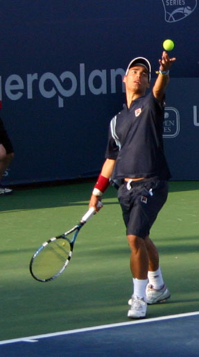 Fabio Fognini in the first round match against Peter Polansky in Montreal 2007